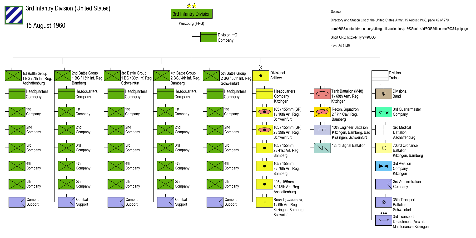 Orbat for 3rd US Infantry Division, August 1960, Pentomic structure.